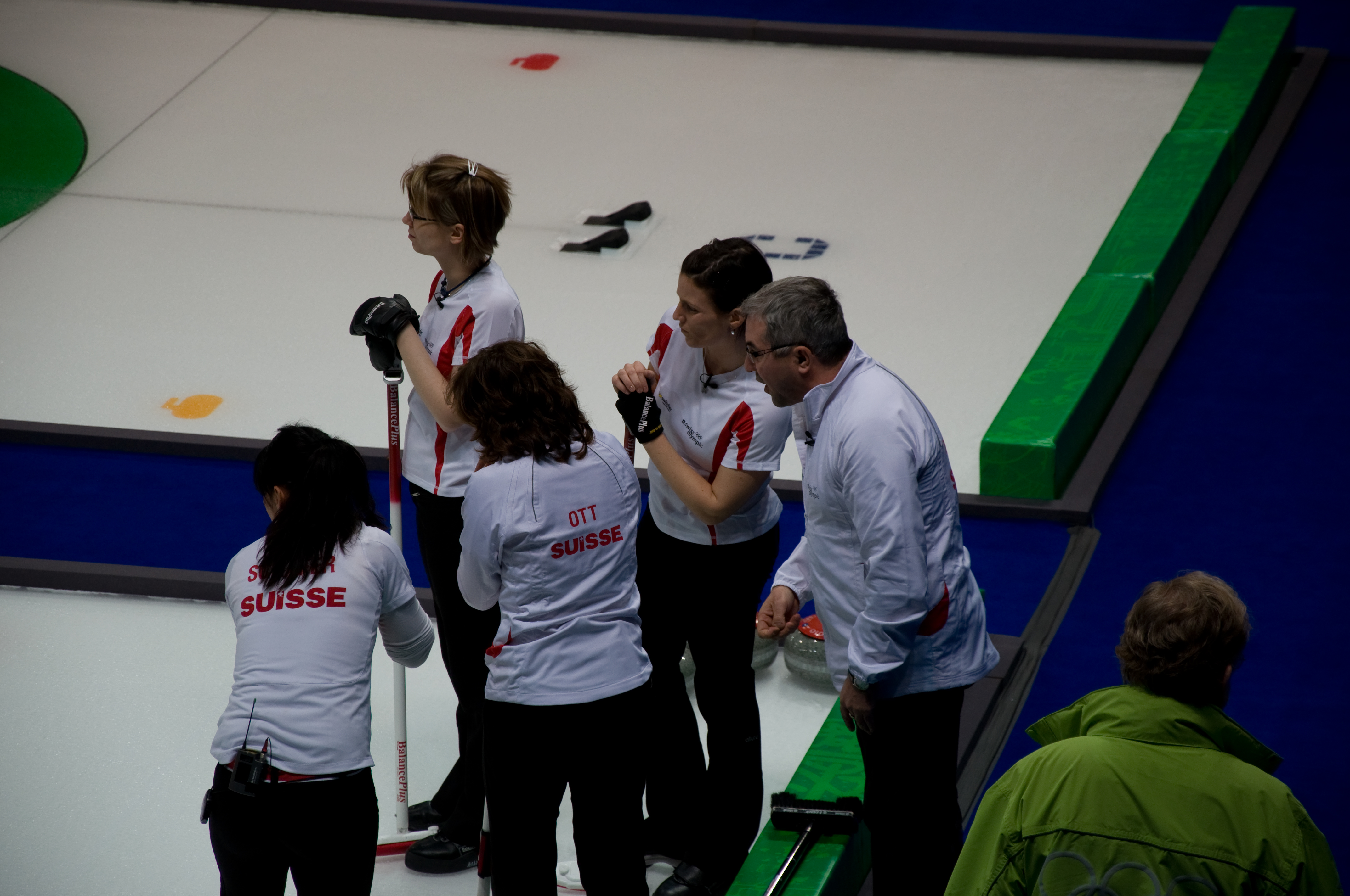 Vancouver Olympic Centre. Russia vs Denmark, Great Britain vs Sweden & China vs Switzerland